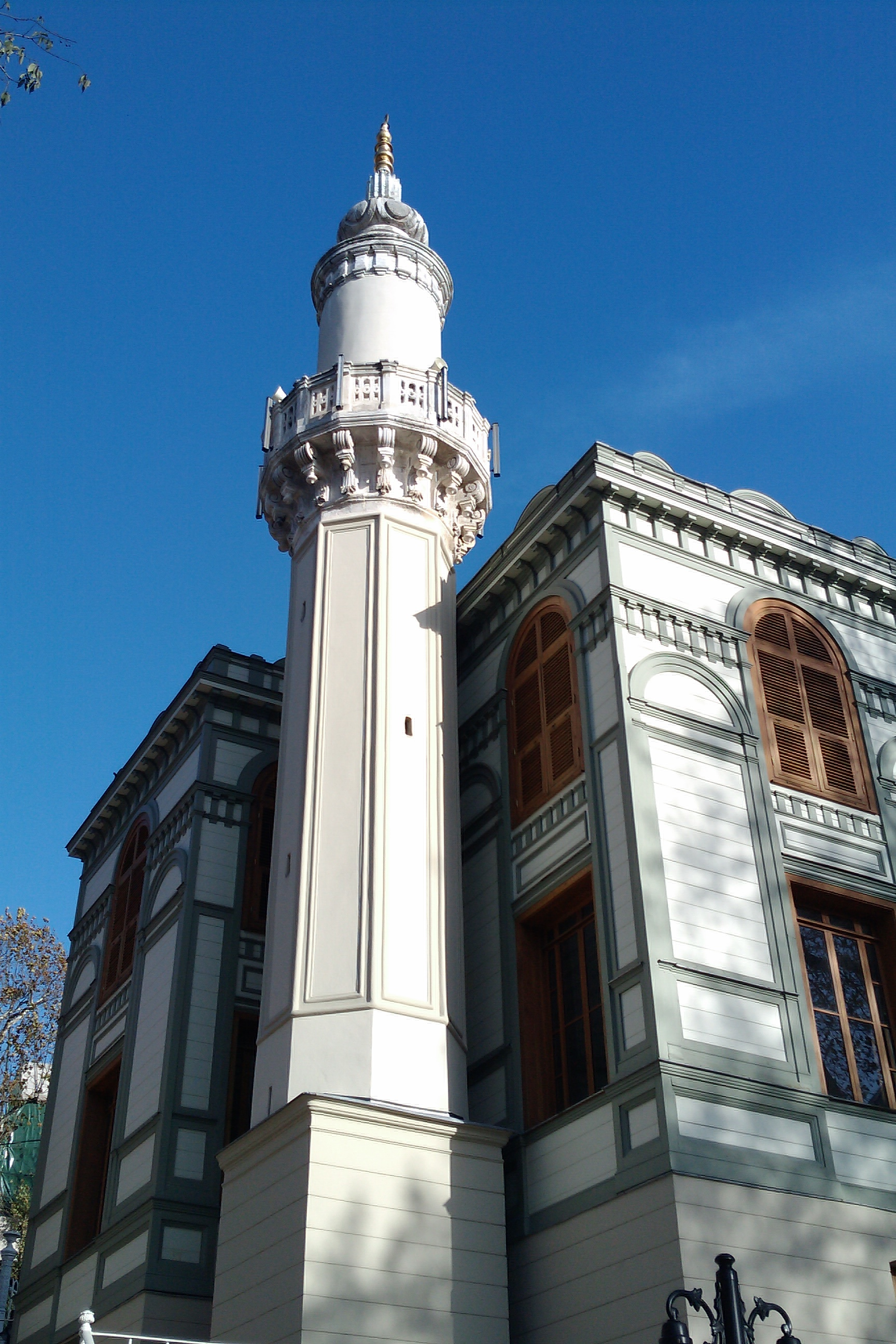 An exterior view of Ertuğrul Tekke Mosque located in Yıldız neighbourhood of Beşiktaş district in Istanbul, Turkey.